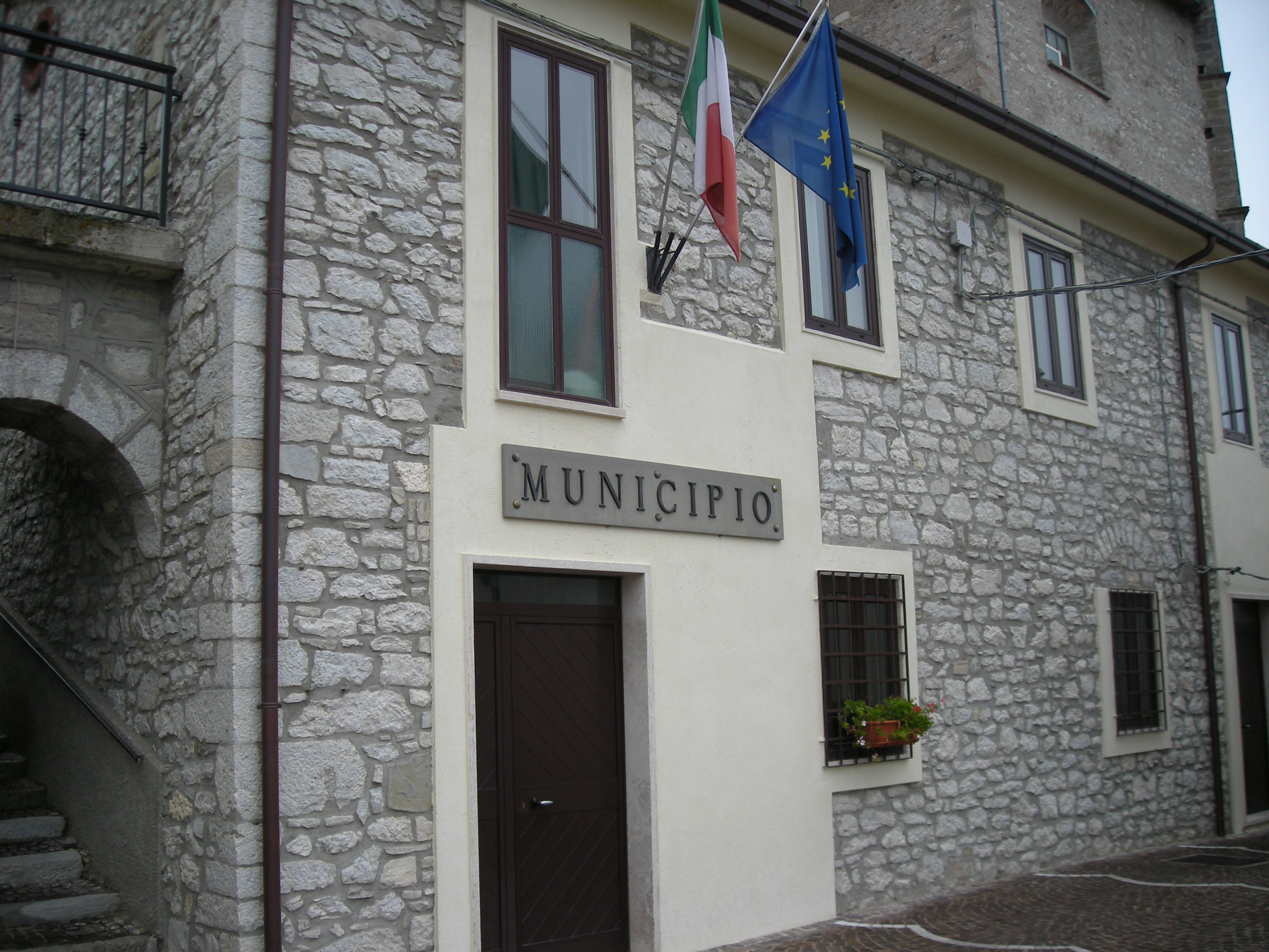 city hall of town